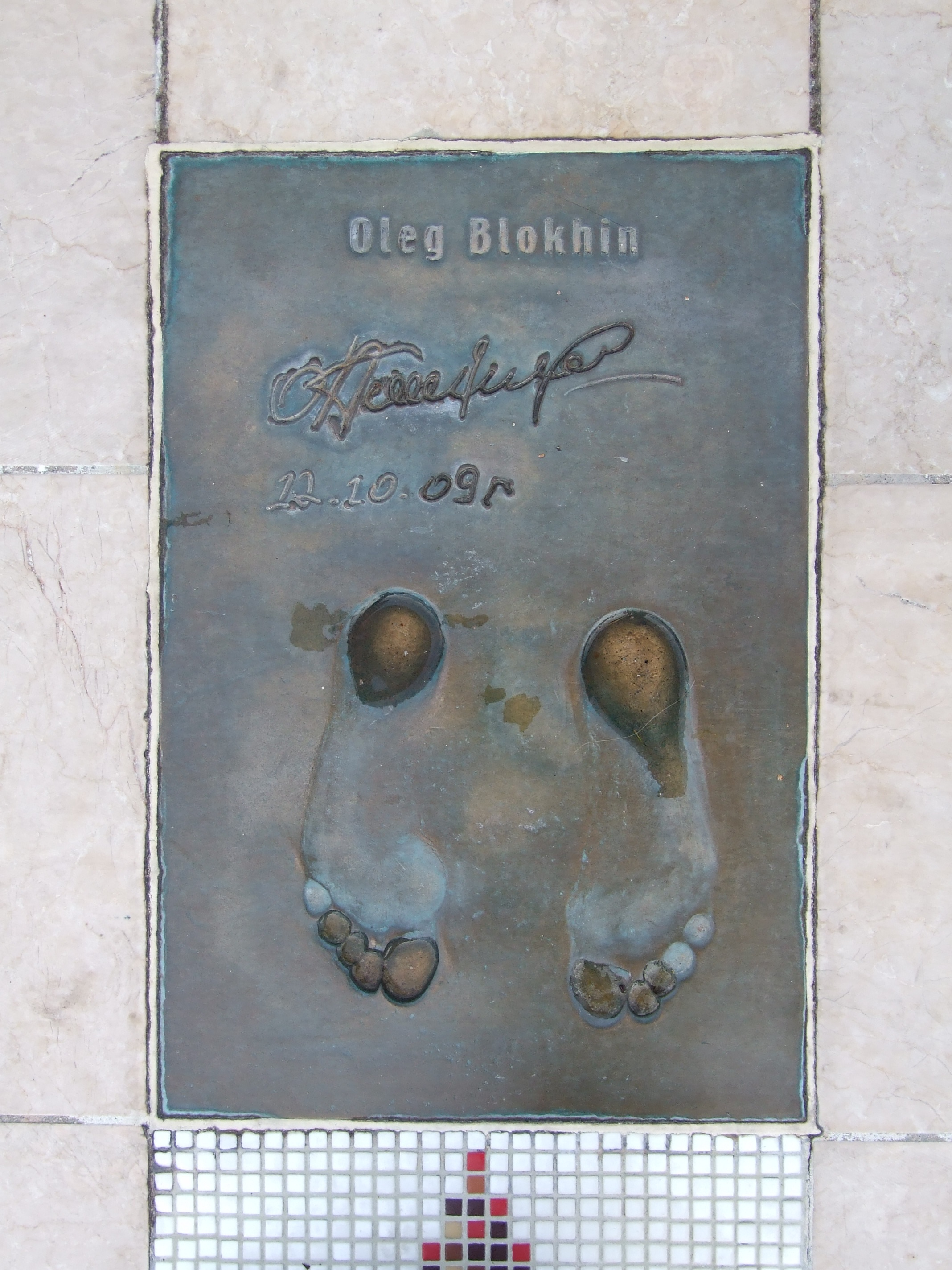 Oleg Blokhin's footprint on The Champions Promenade "Golden Foot" in Monaco, 2009.